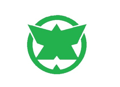 Flag of Ono Gifu